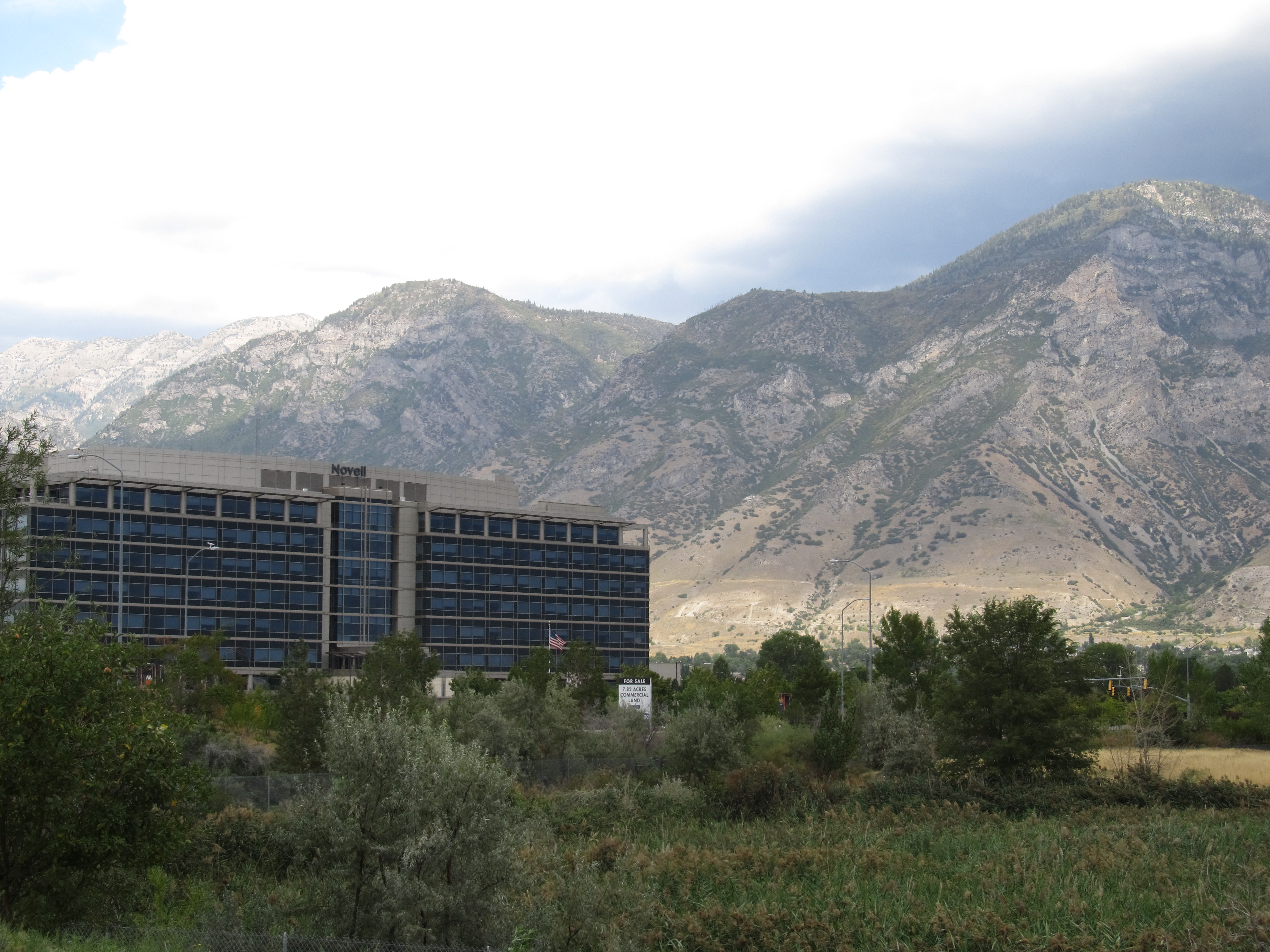 Novell Building, Provo, Utah ... [as of this date] a primary focus of the company is on developing software for enterprise clients. It is a wholly owned subsidiary of The Attachmate Group.A 'For Sale' sign for some of the nearby property is visible in front of the building. The foothills of the Wasatch Range are visible behind it.